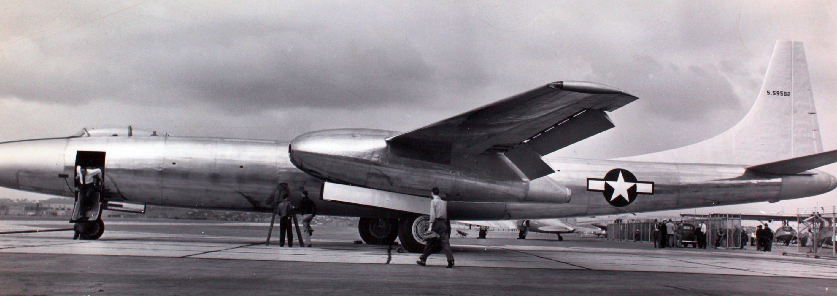 Photo of Convair XB-46 wing detail samf4u.jpg